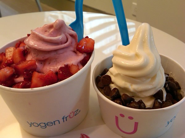 Yogen Früz products. Left: Mix It Frozen Yogurt. Right: Top It (Soft Serve) Frozen Yogurt.